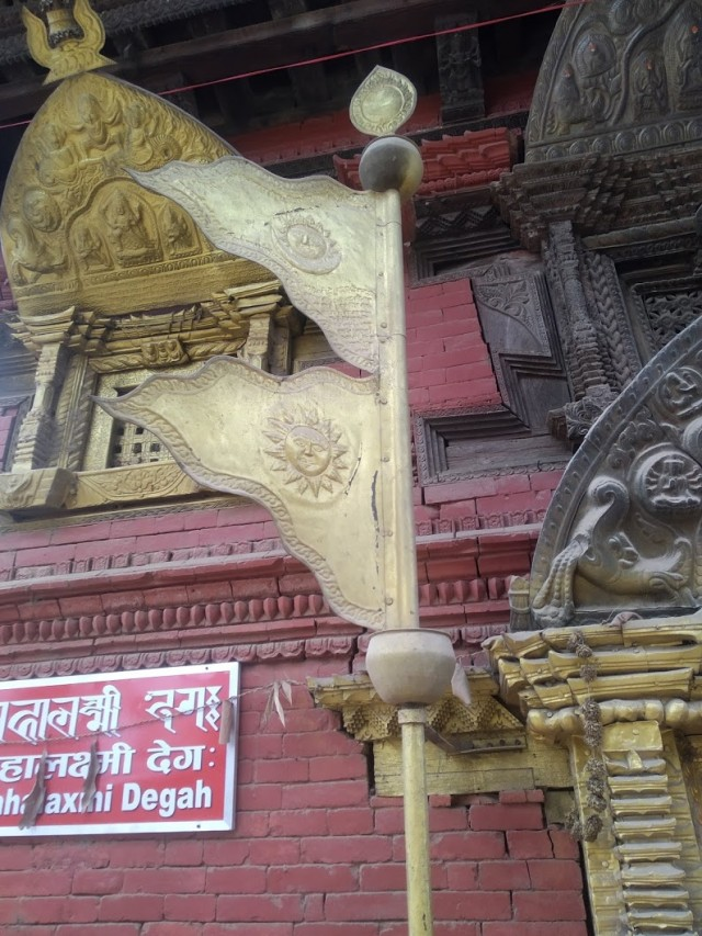 the old flag of Nepal in the Mahalaxmi Degah Temple situated at Lubhu, Lalitpur, Nepal